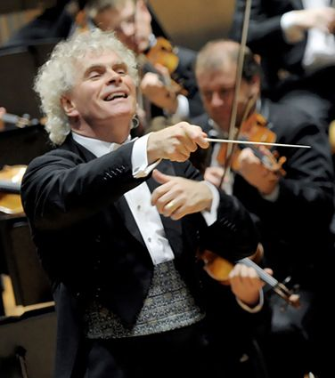 Sir Simon Rattle conducting the Berlin Philharmonic Orchestra (BPO) in Das Rheingold by Richard Wagner